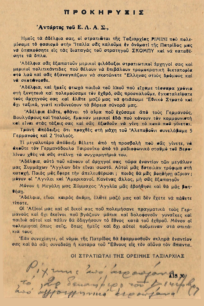 Greek Army pamphlet dropped by aeroplanes in the December 1944 events in Athens. 21 cm x 14 cm.